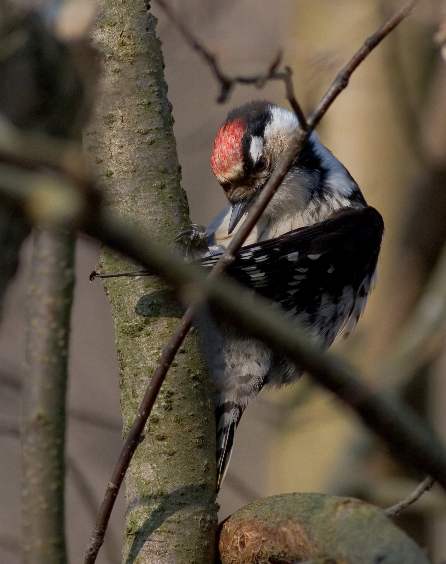 Lesser Spotted Woodpecker (Picoides minor or Dendrocopos minor) in natural habitat. Photo taken near Vanhankaupunginlahti, Helsinki, Finland. The location is listed in Ramsar "List of Wetlands of International Importance".